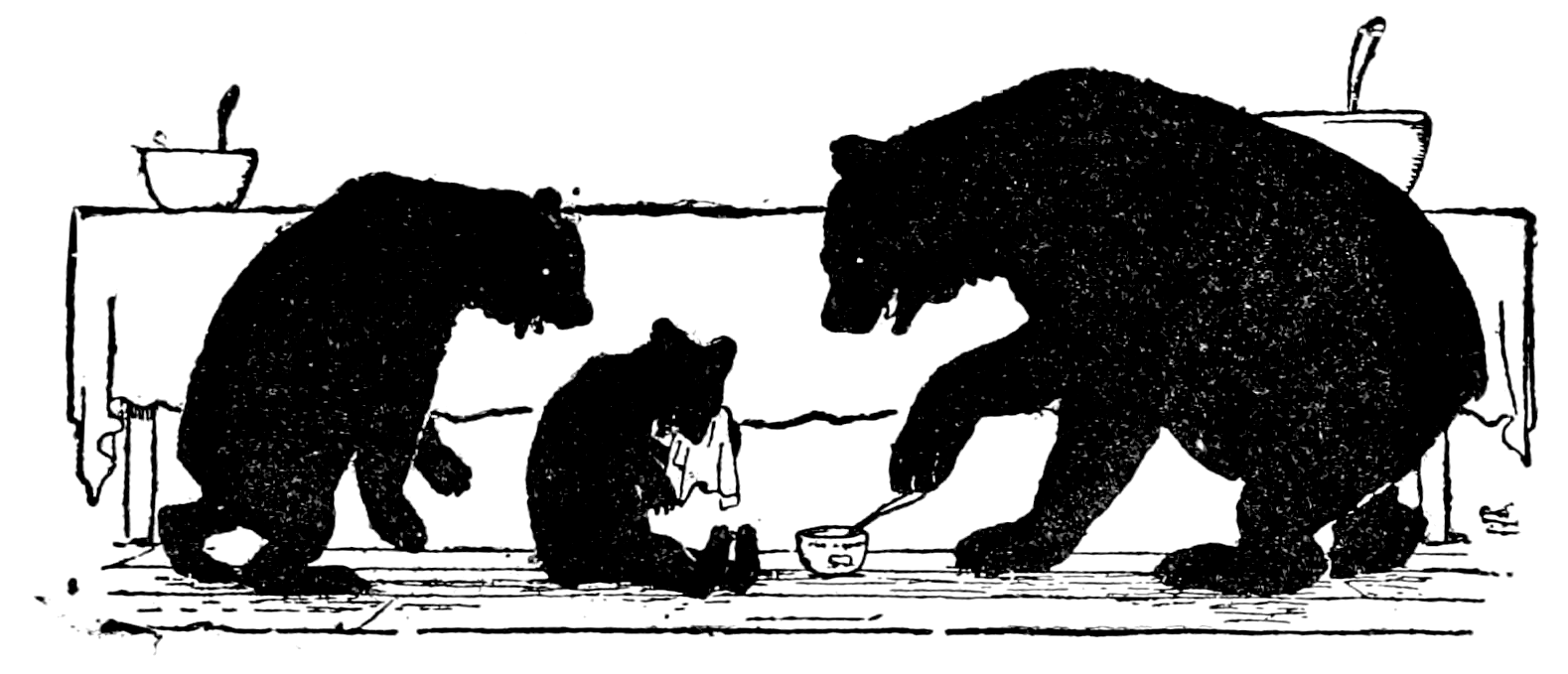 illustration from a book of fairy tales